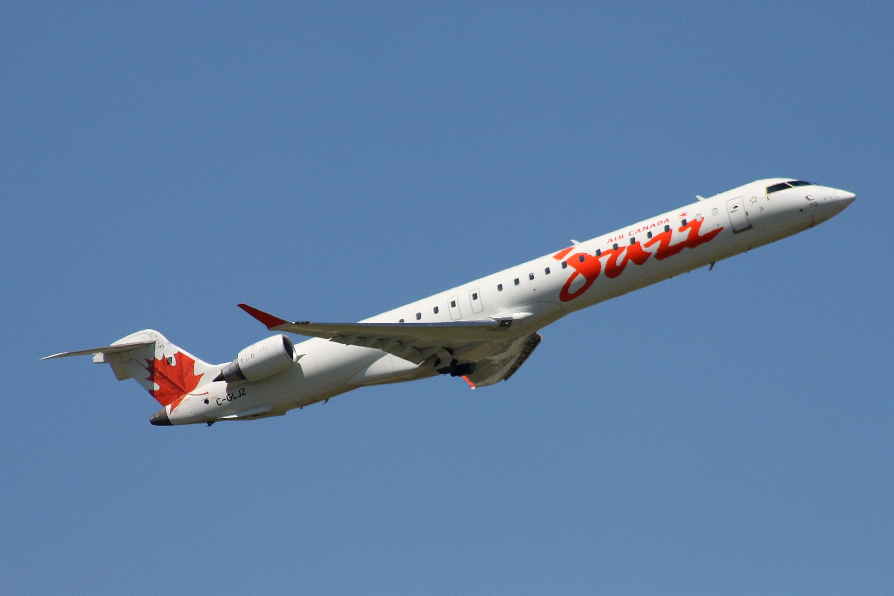 'Orange Jazz'